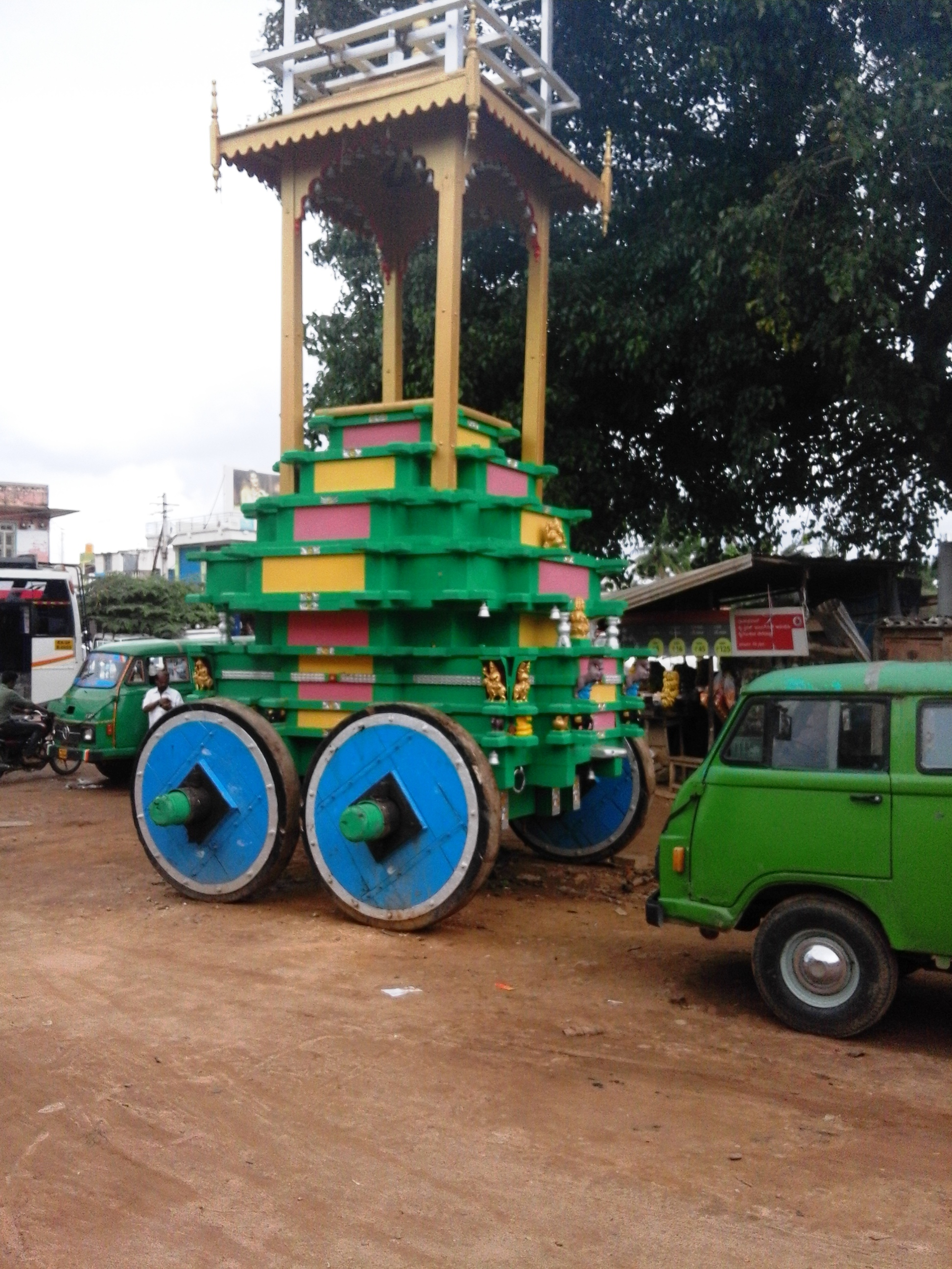 Tirumakudal Narsipur Town, Mysore district, Karnataka state, India.